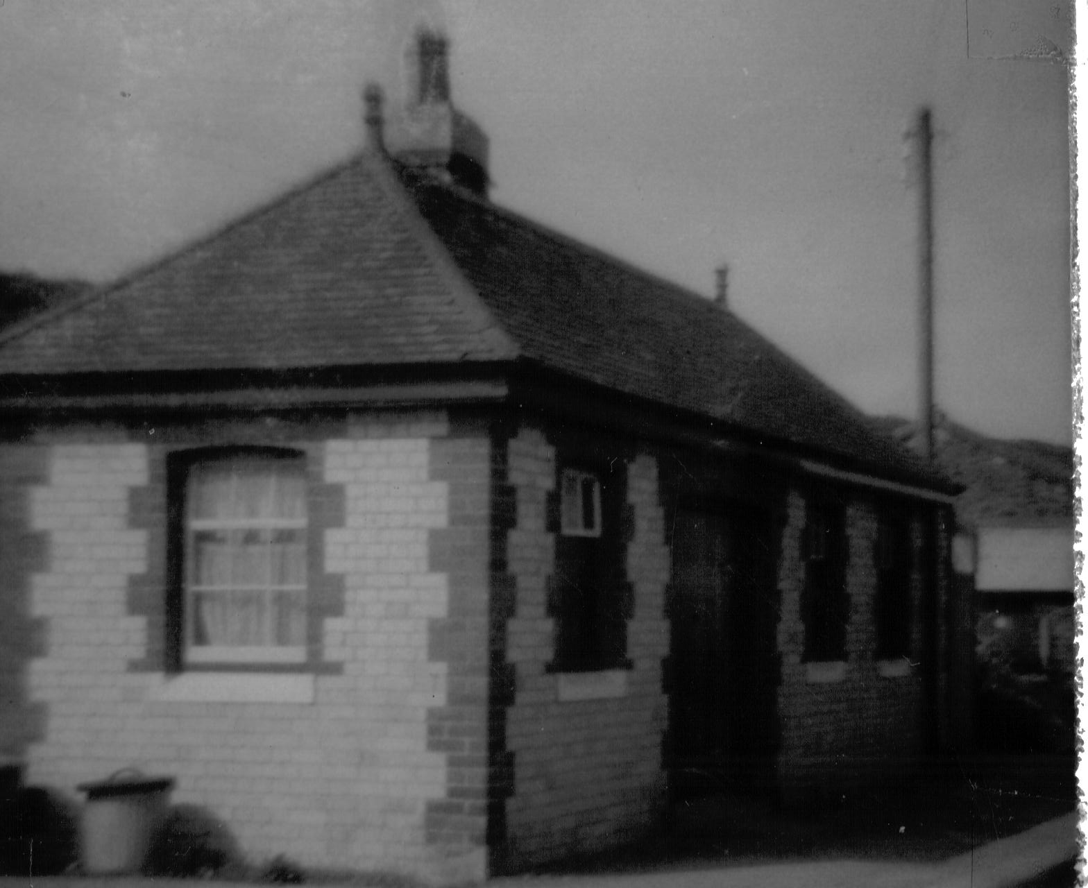 The old ticket office and waiting rooms at Westward Ho! old railway station, North Devon, England.